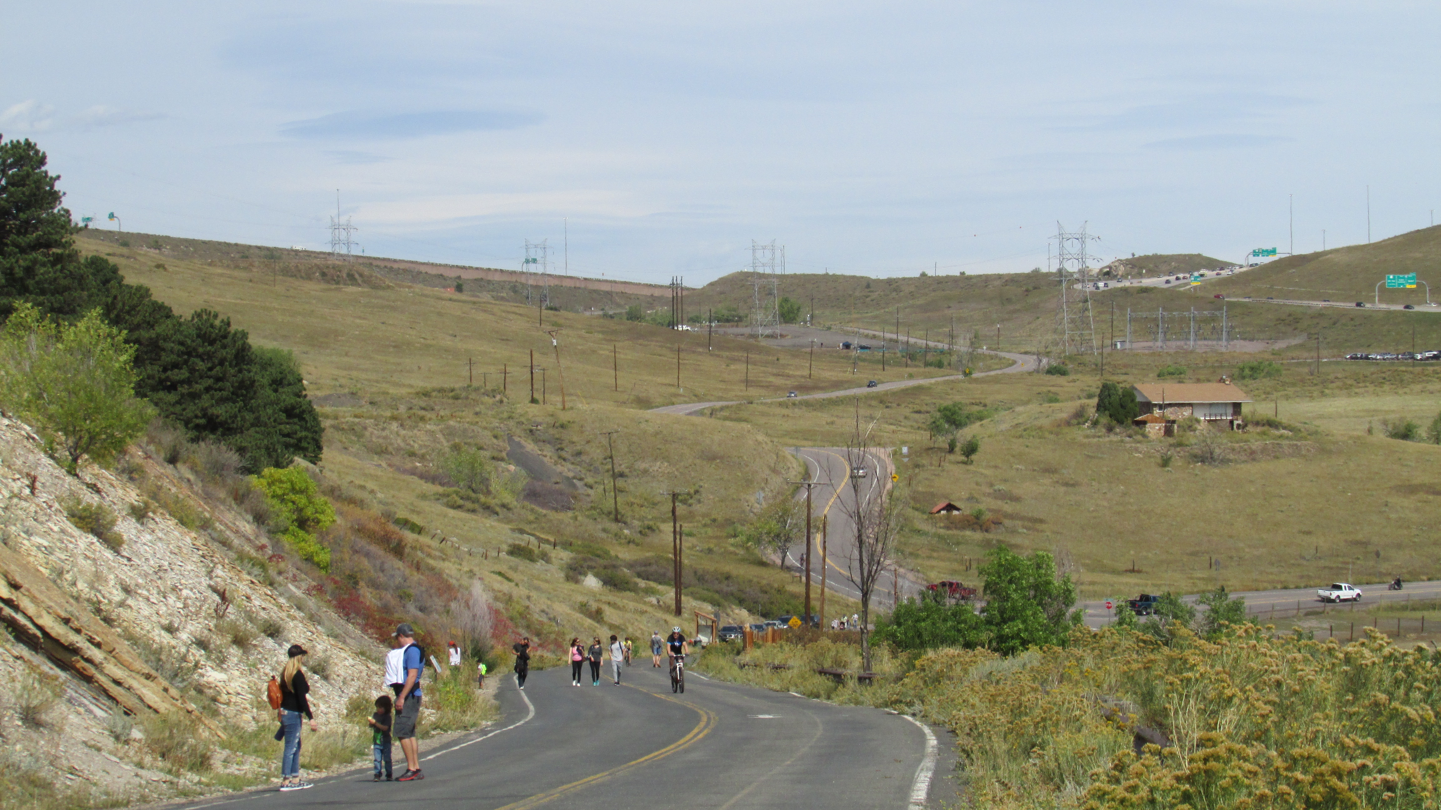 Pedestrian & bike only access to Dinosaur Ridge, Colorado. A tour bus provides access to those who do not wish to walk or bike the route.